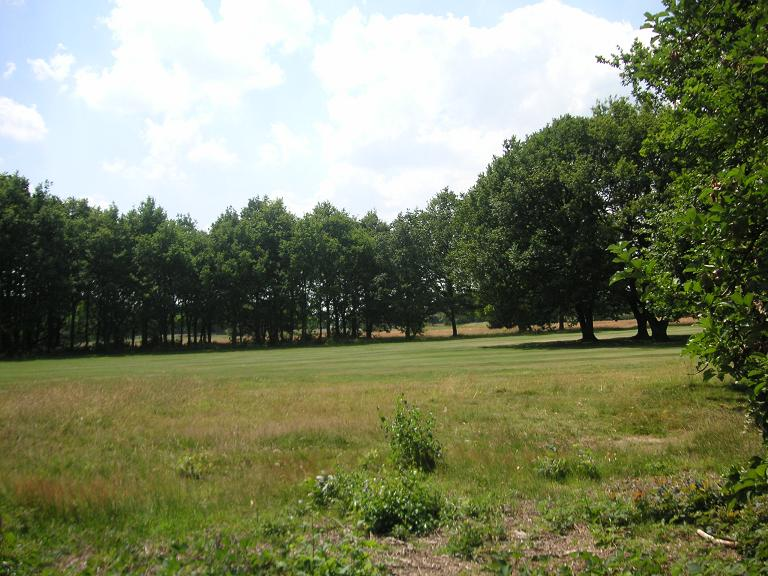 Photograph by Colin Riegels (2 July 2006)